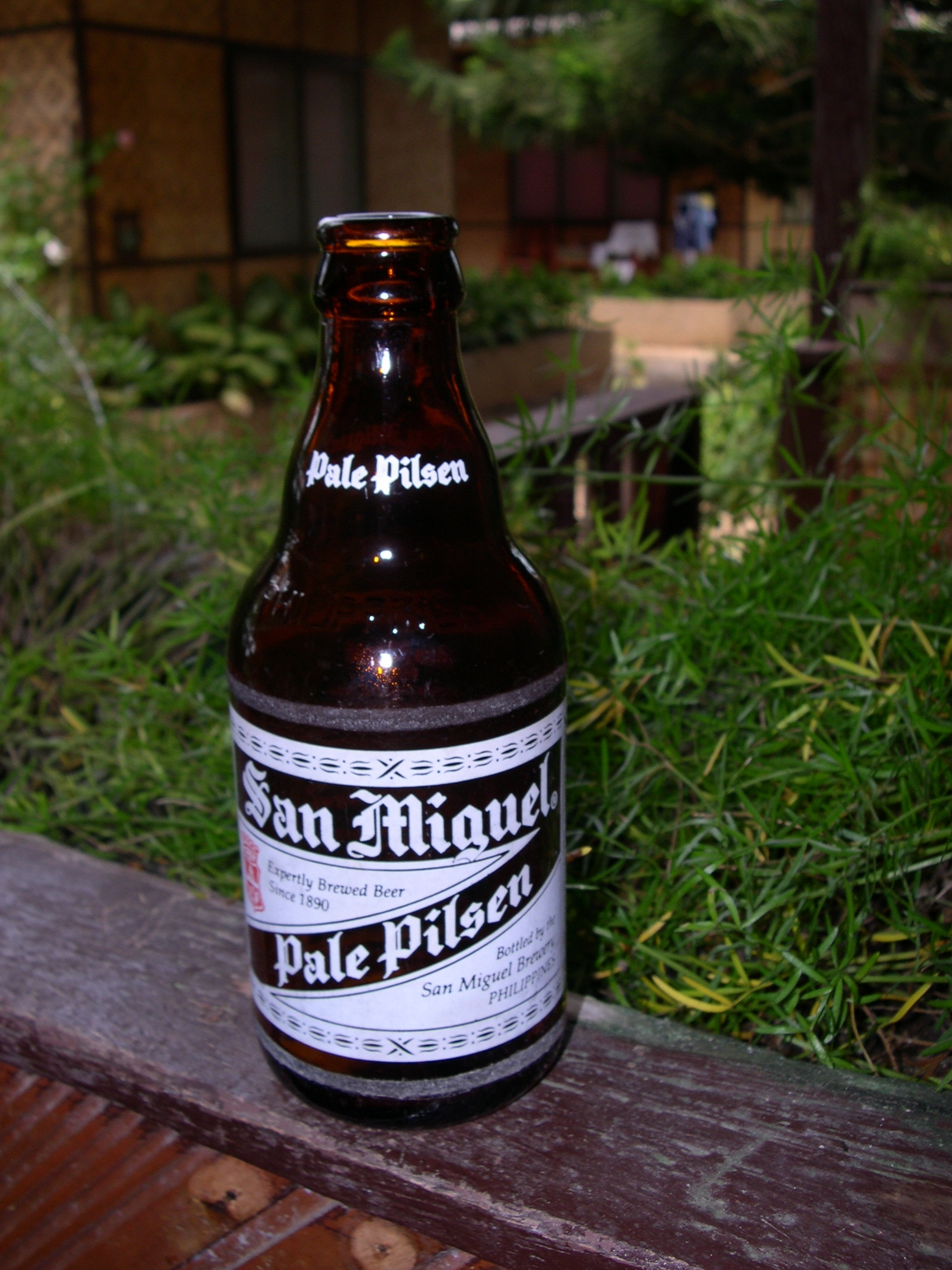 San Miguel beer, photographed on a patio of a beach resort on Alona Beach on Panglao Island.